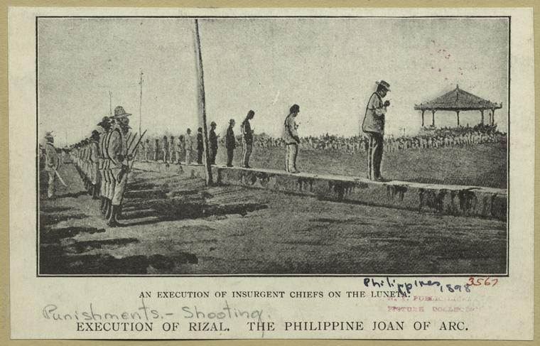 "Execution of Rizal. The Philippine Joan of Arc." From the book "The Philippine Islands" (New York : Continental Pub. Co., [1898]) Lala, Ramon Reyes, Author.